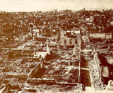 Izmir, after the Great Fire in 1922.